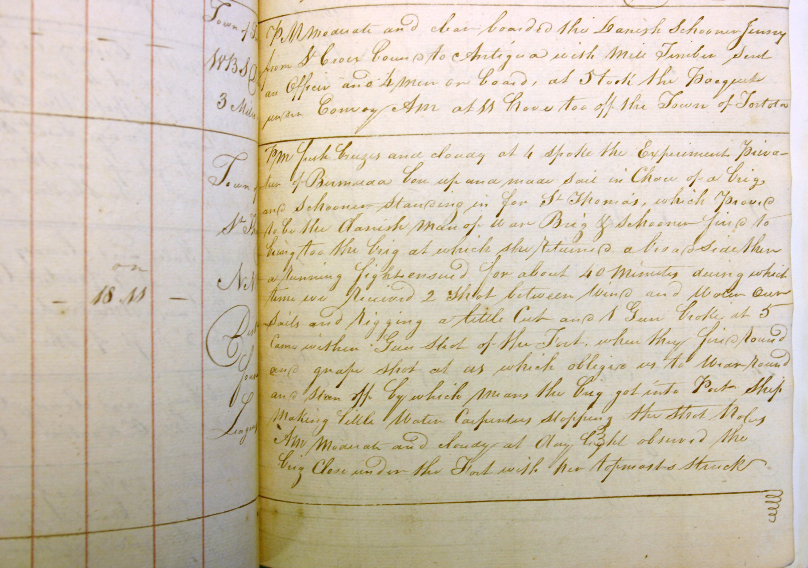 The log entry for HMS Arab for 3 March 1801 describing the battle of West Kay.